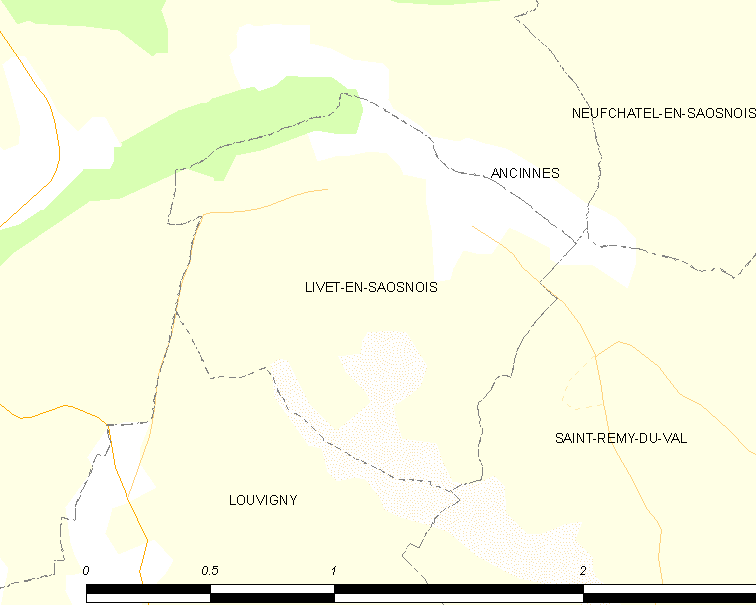 Map of French municipality